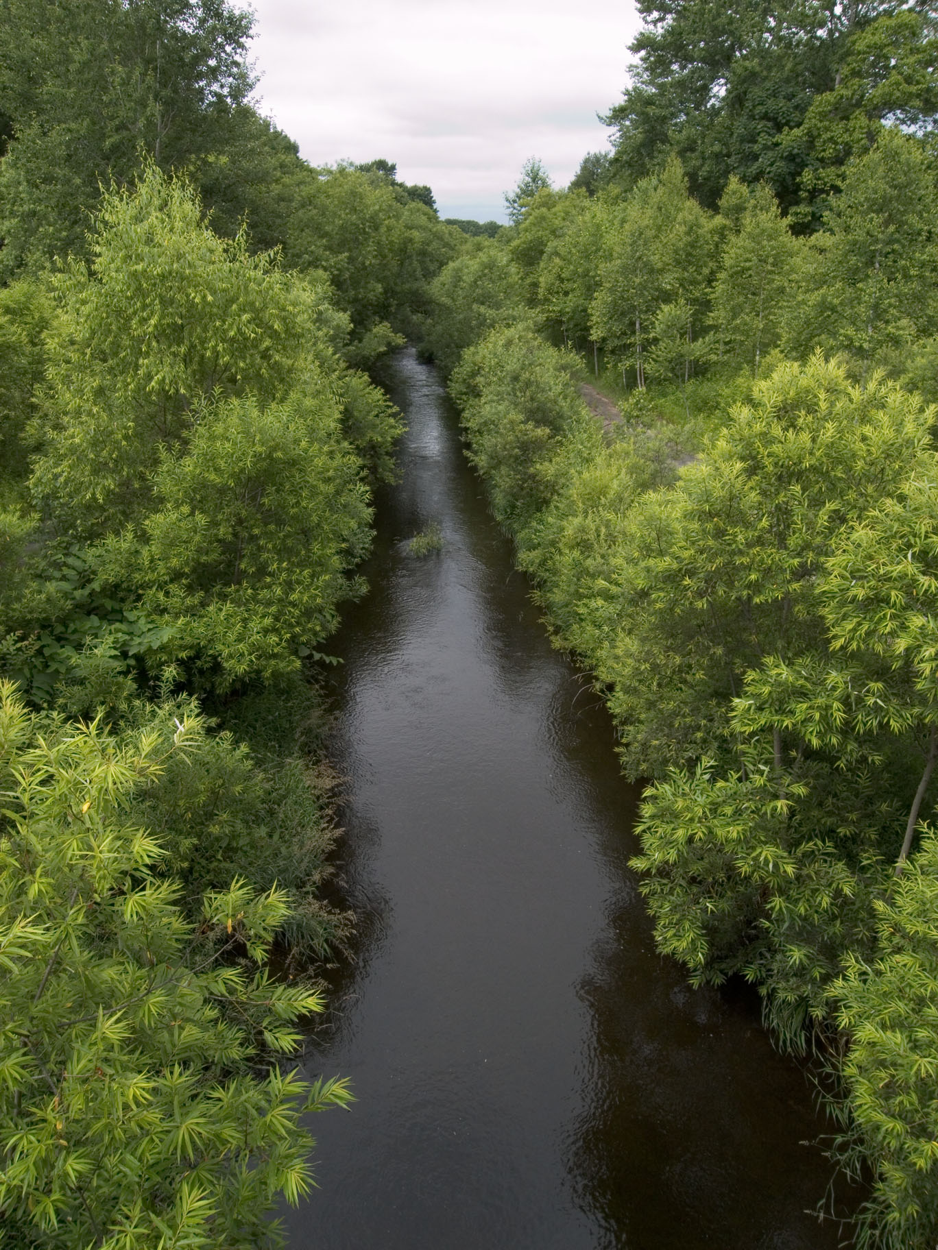 Urikari river and riparian forest — Obihiro, Hokkaido, Japan